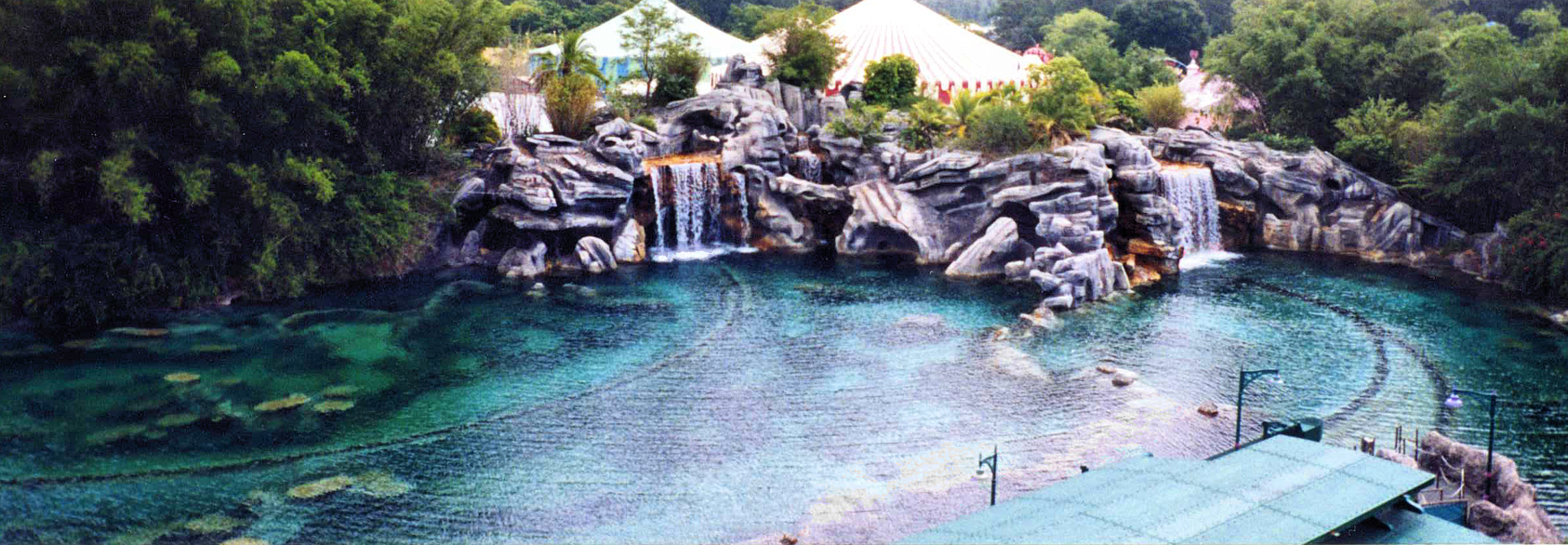 Remnant of 20,000 Leagues Under the Sea: Submarine Voyage in 1998. The ride was closed.